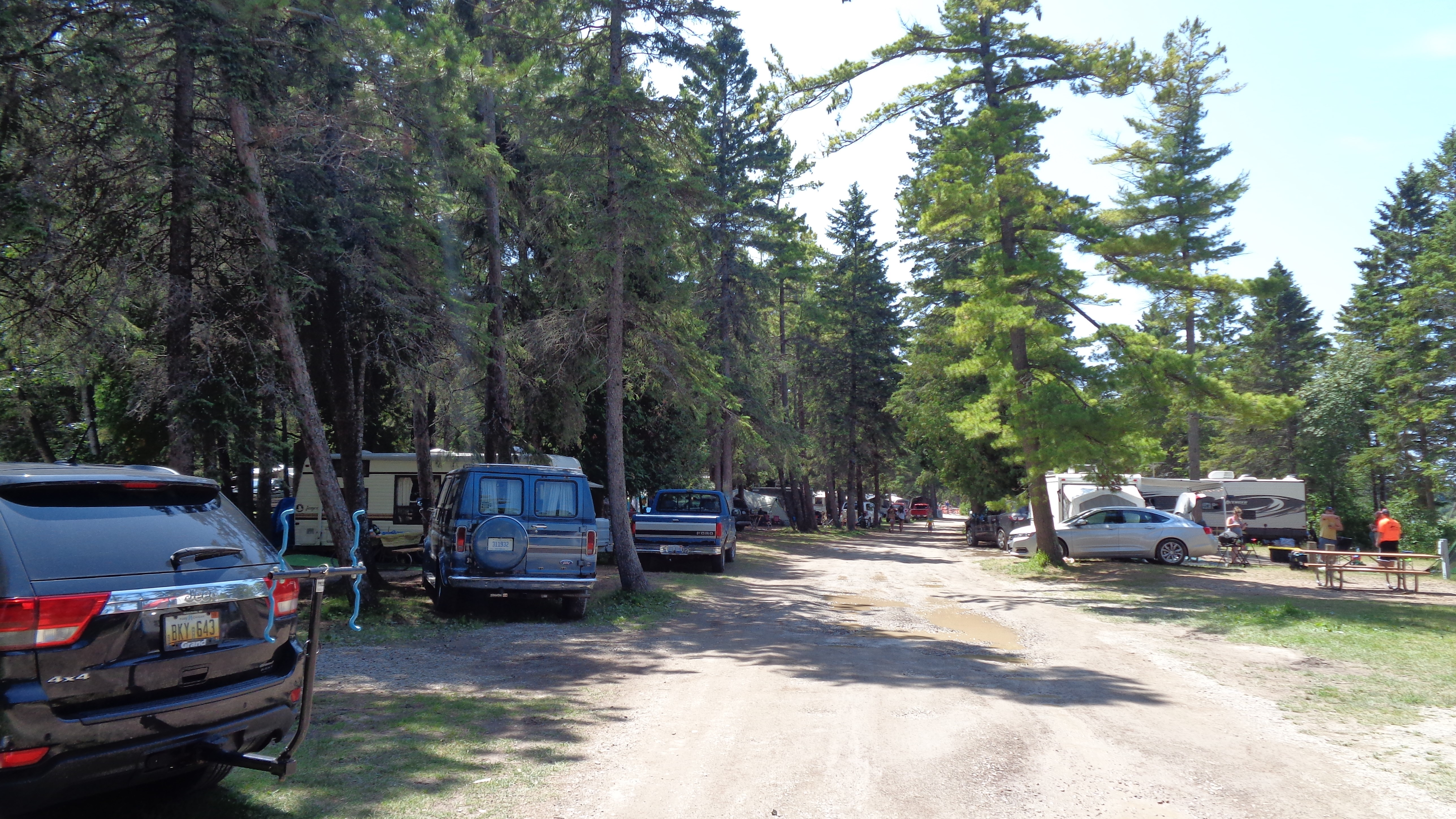 Wilderness State Park Campground